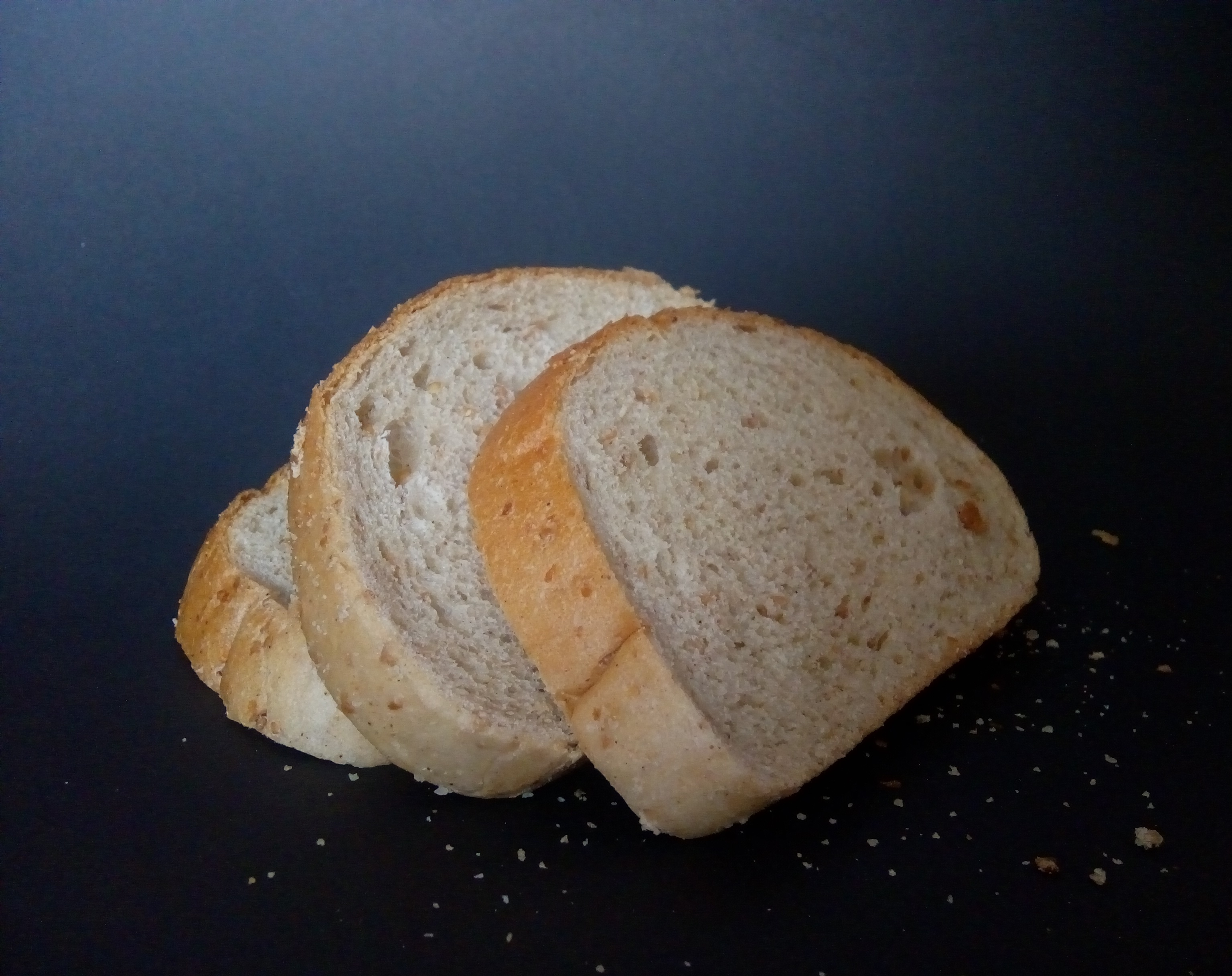 Bread